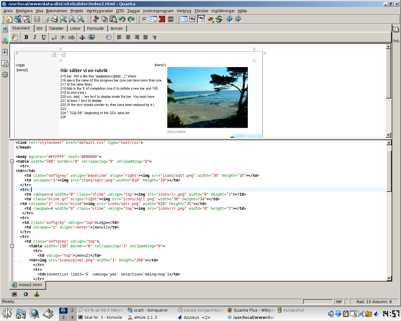 Screendump of the free software Quanta Plus Swedish